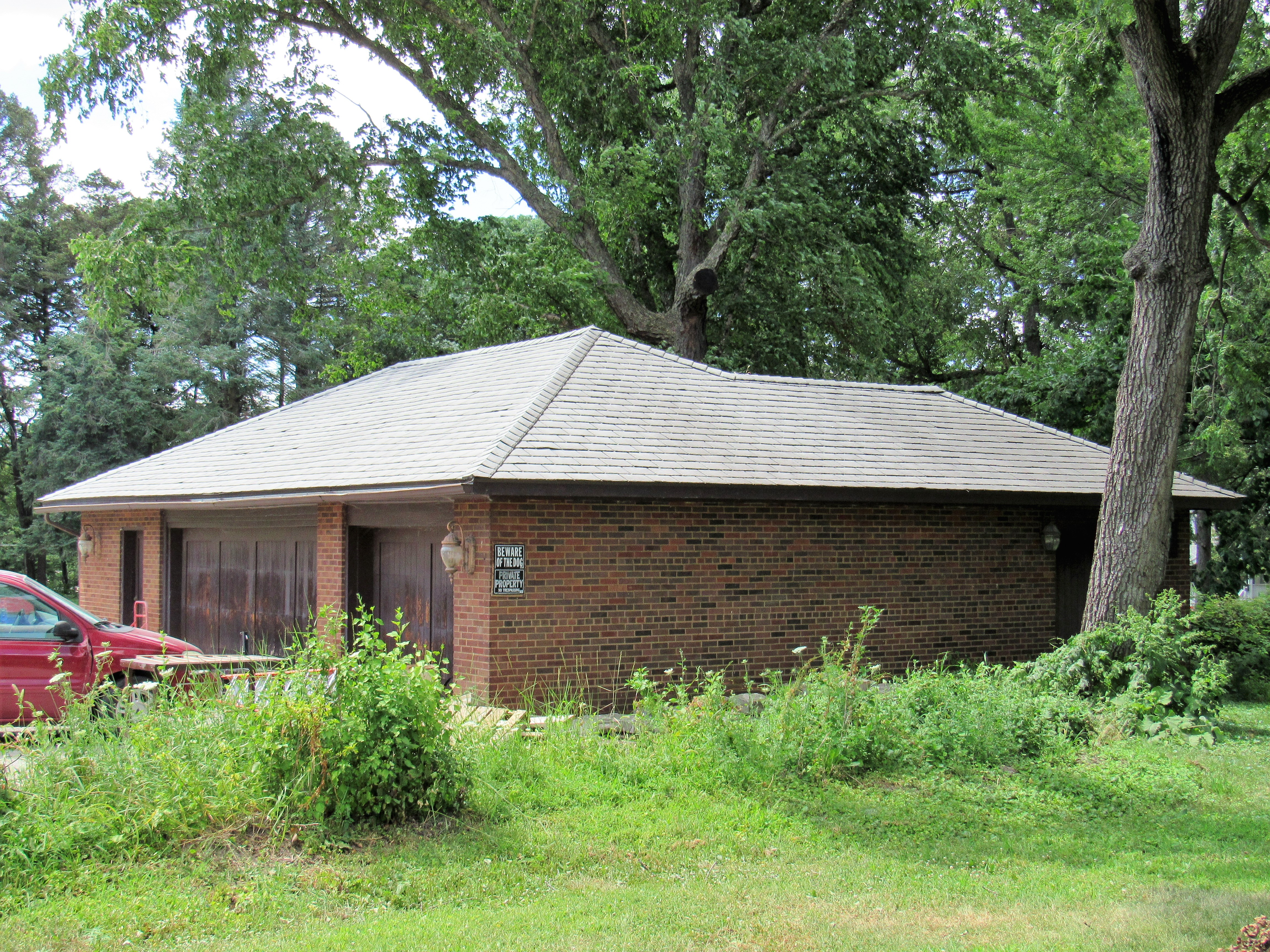 The garage at the Dr. Kuno Struck House in Davenport, Iowa. It is a contributing property in the Marycrest College Historic District